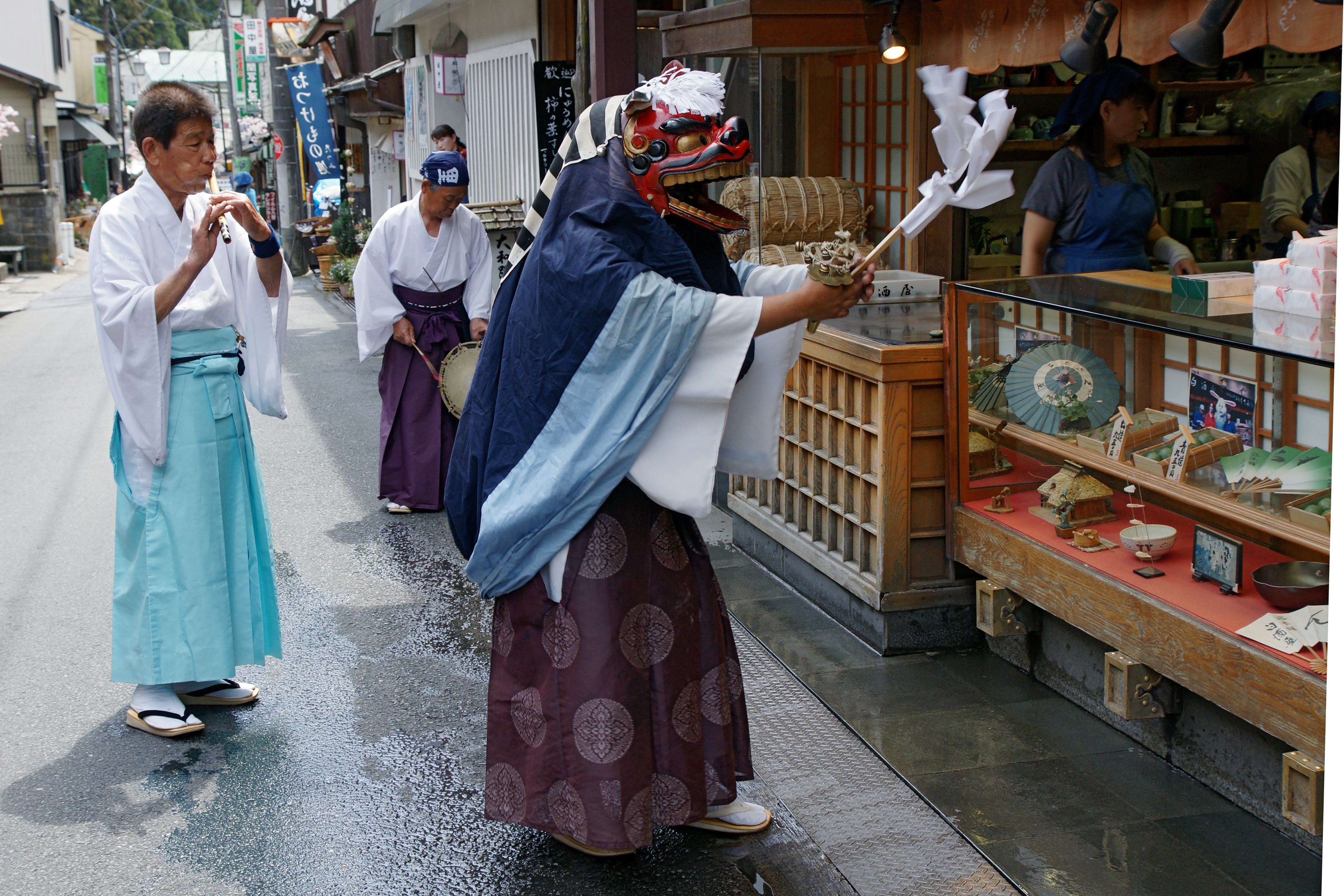 at the temple town of Hase-dera in Sakurai, Nara prefecture, Japan